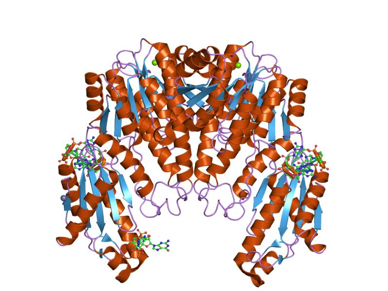 Cartoon representation of the molecular structure of protein registered with 1w25 code.